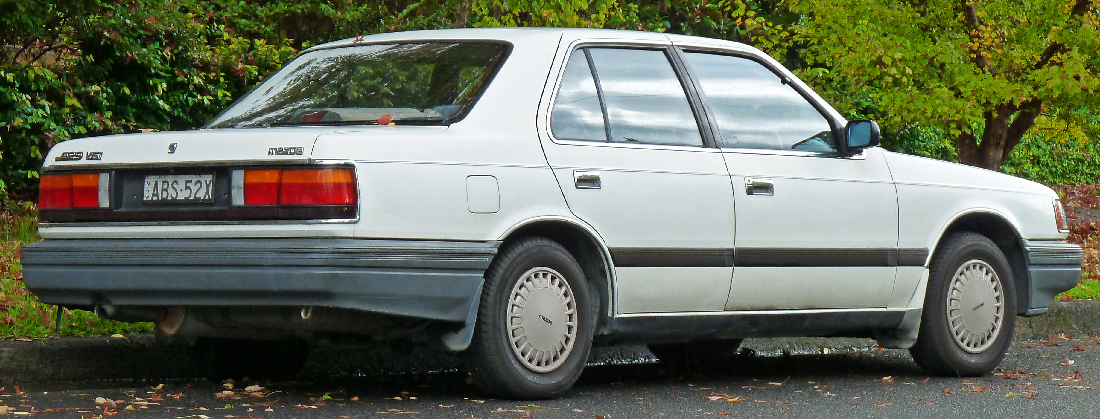 1988 Mazda 929 (HC) sedan. Photographed in Roseville, New South Wales, Australia.